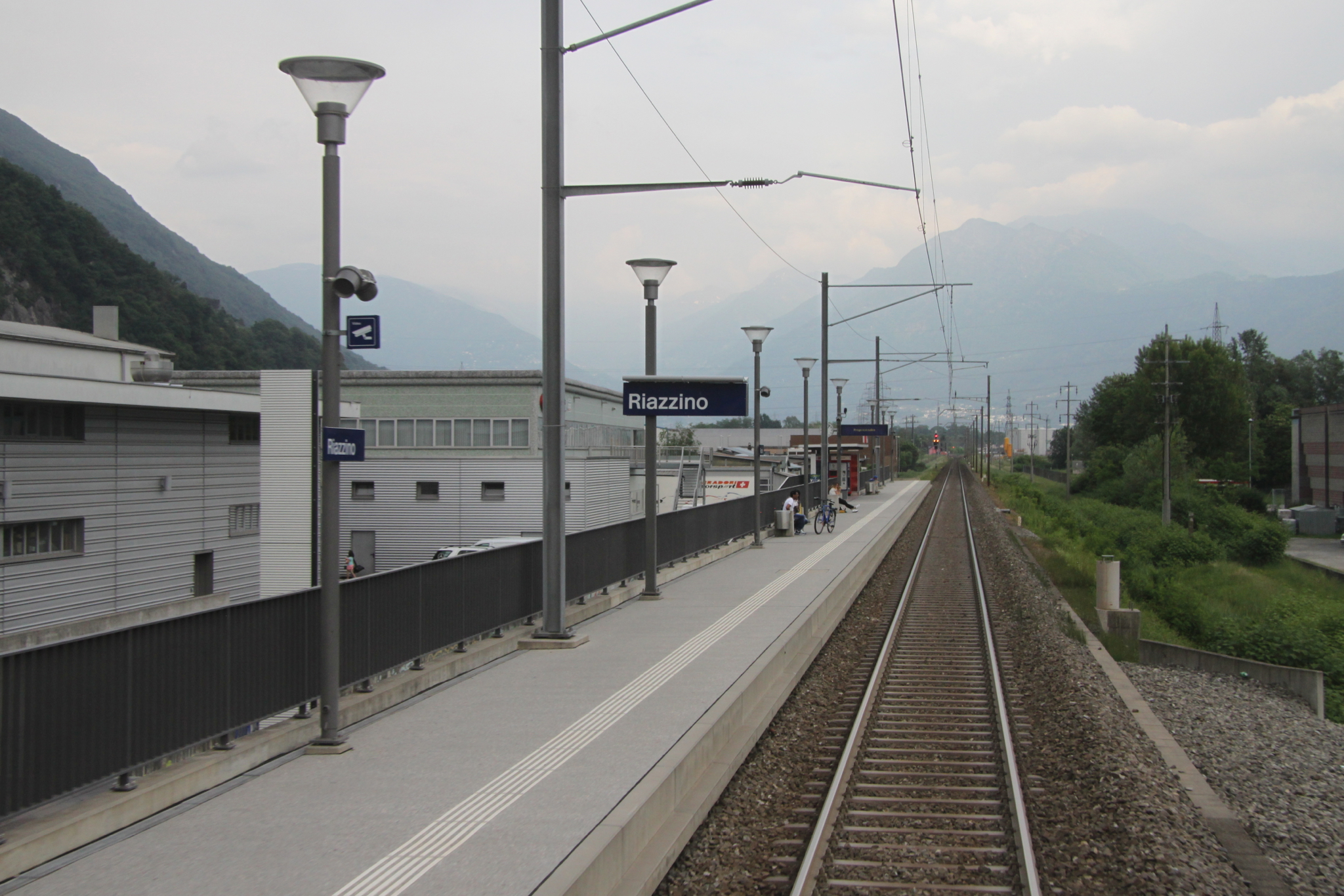 Riazzino train station.